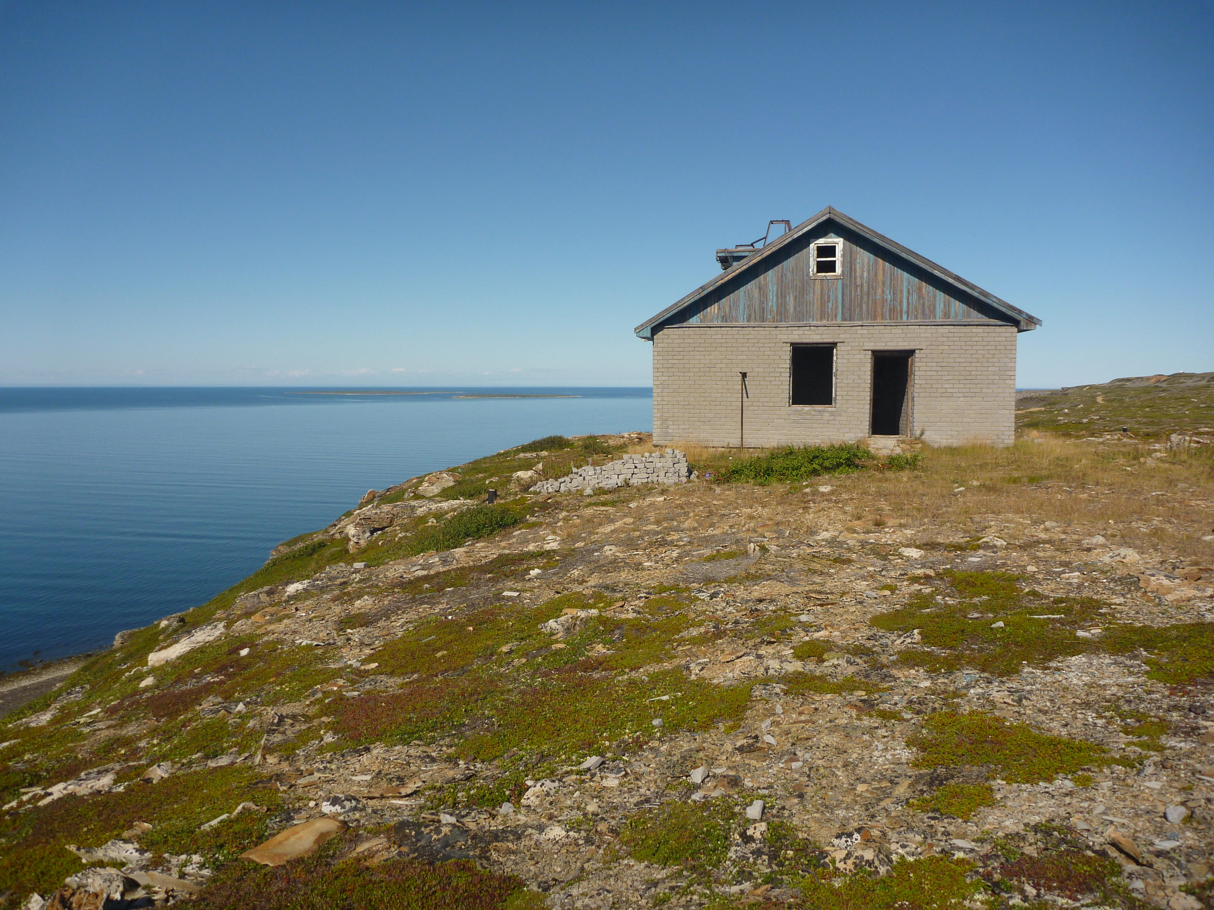 Pechengsky District, Murmansk Oblast, Russia